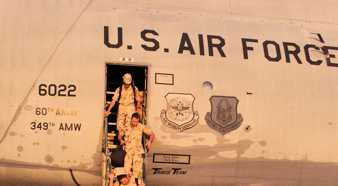 People from the 366th Air Expeditionary Wing are greeted by the 366th Operations Group staff after arriving in a C-5 Galaxy at an operating location in support of the U.S. Central Command execution of Operation Enduring Freedom.